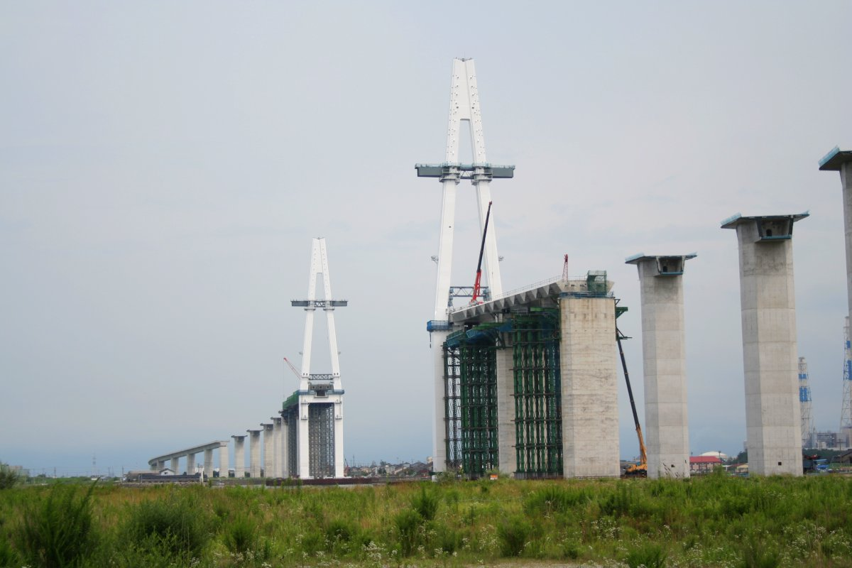 The Shinminato Bridge in Imizu, Toyama prefecture